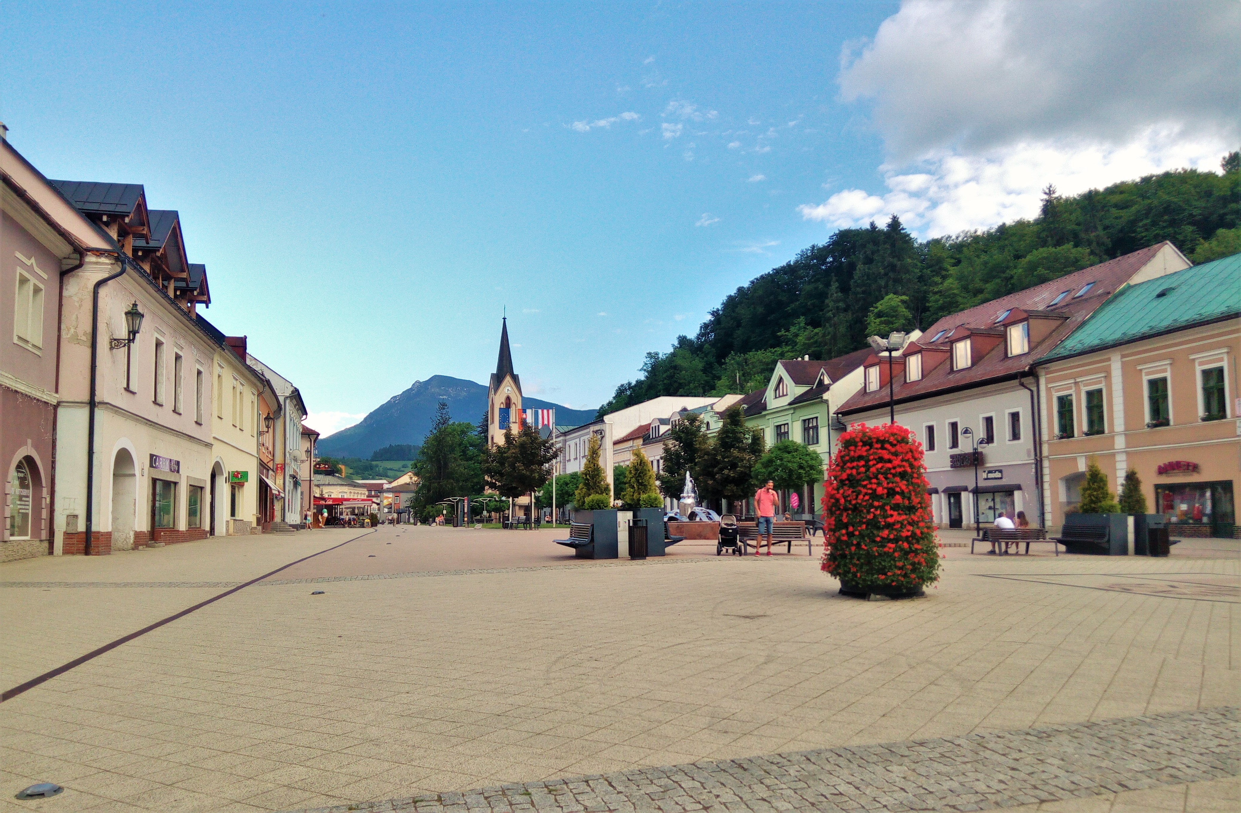 Main square (officially Hviezdoslav Square) in Dolný Kubín, Slovakia.